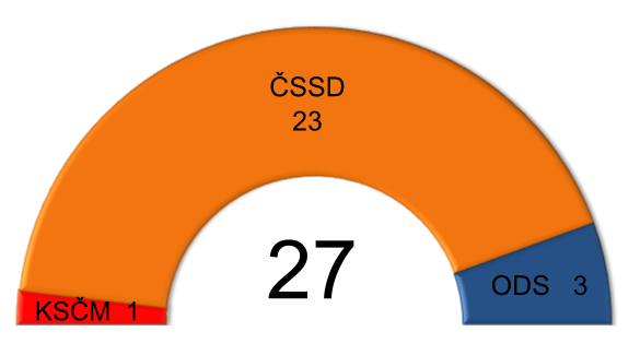 Election to Czech senate 2008 diagram.